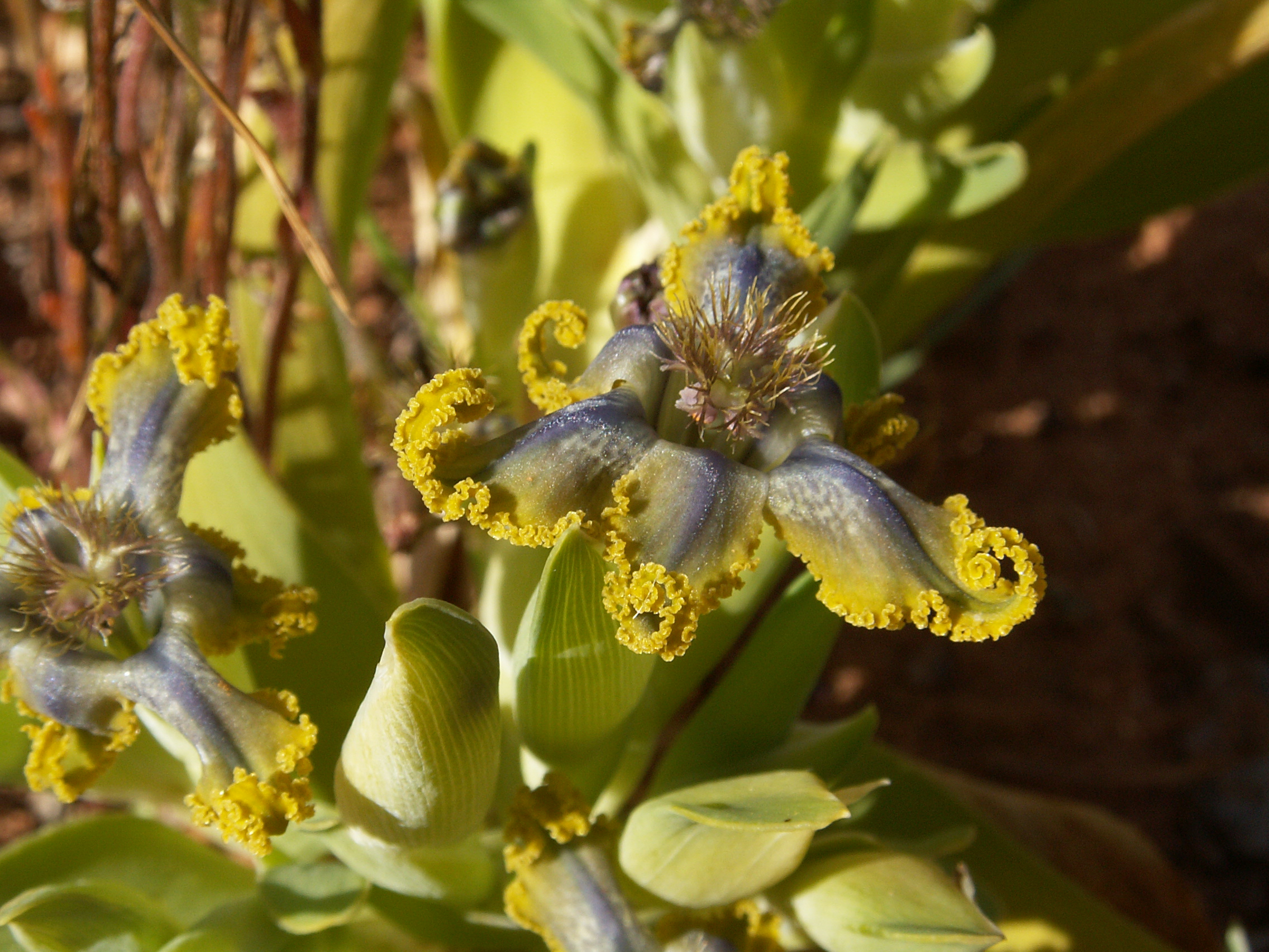 (Ferraria uncinata Sweet), Clanmilliam, Cederberg Local Municipality, Western Cape, South Africa